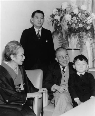 From the left, Hatoyama Kaoru, Hatoyama Iichiro, Hatoyama Ichiro, Hatoyama Yukio.